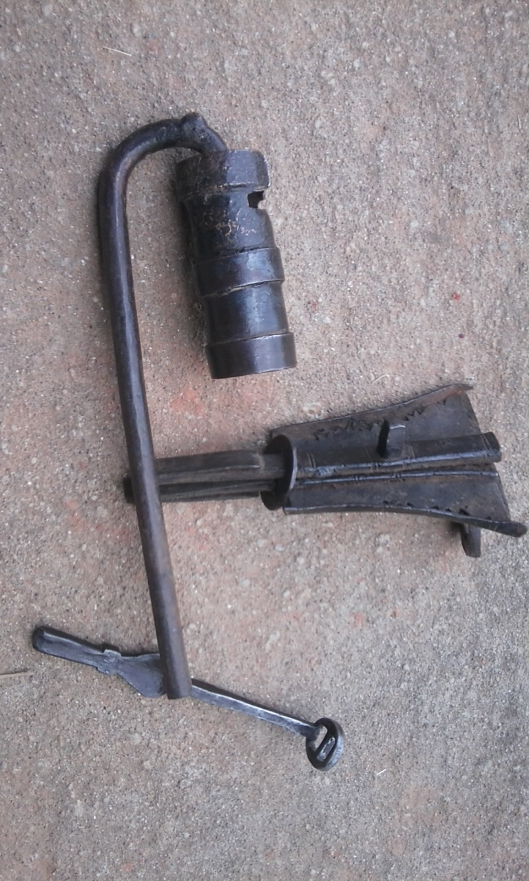 A Medieval padlock used in Nepal with its key.